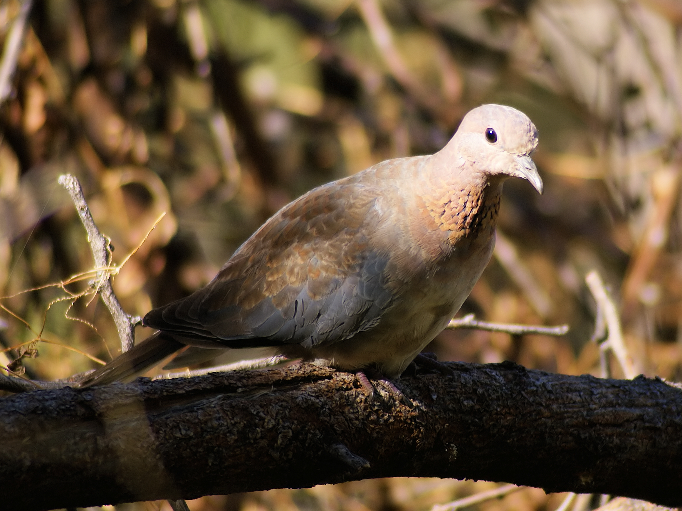 An immature Laughing Dove at Waterberg NP, Namibia